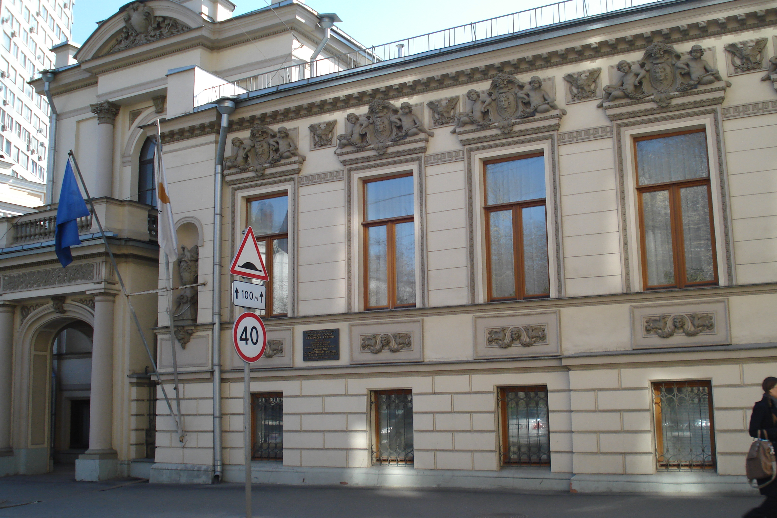 9 Povarskaya Street, Moscow by I.S.Kuznetsov (Embassy of Cyprus). Architect Ivan Kuznetsov